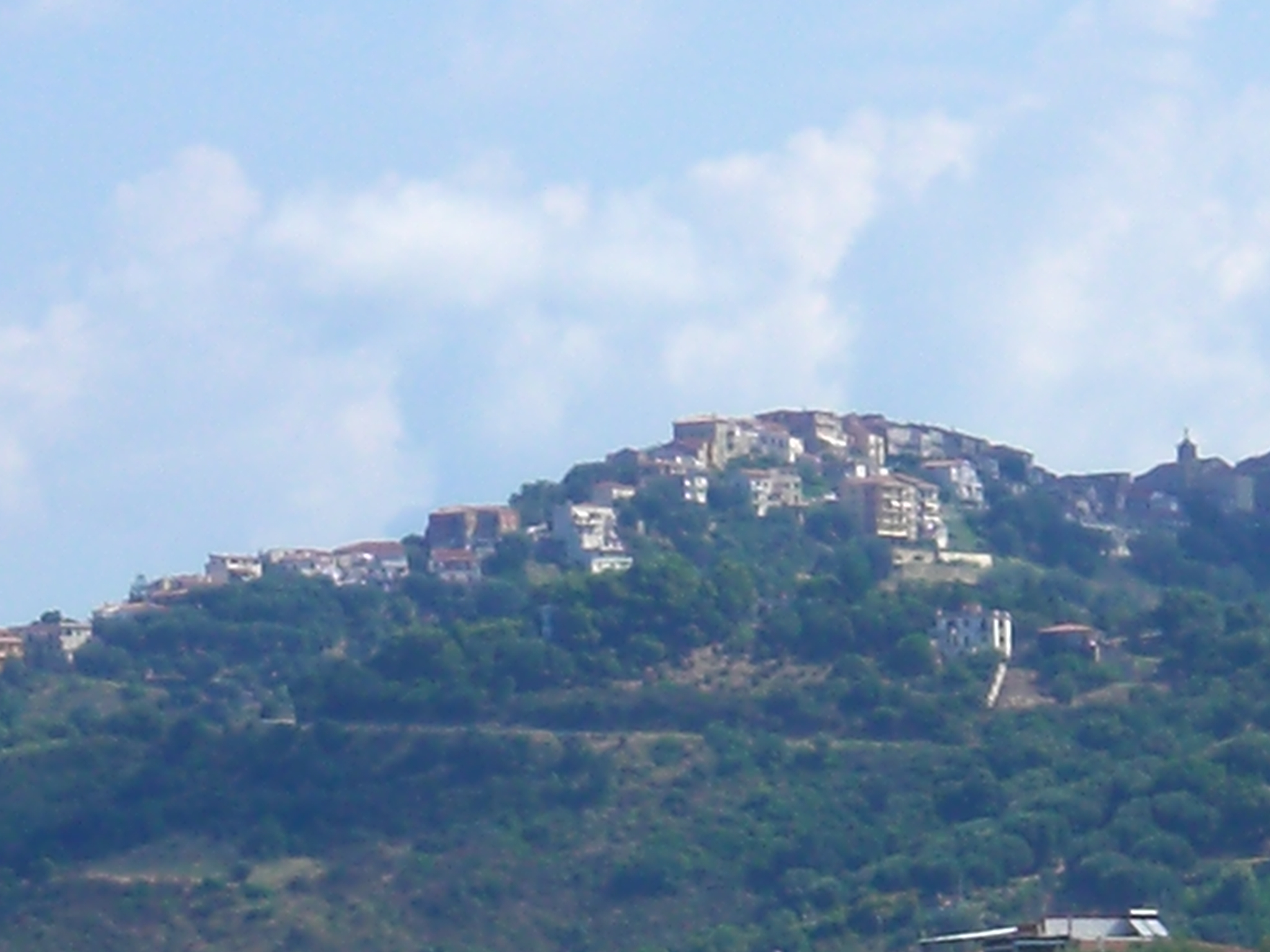 View of Centola